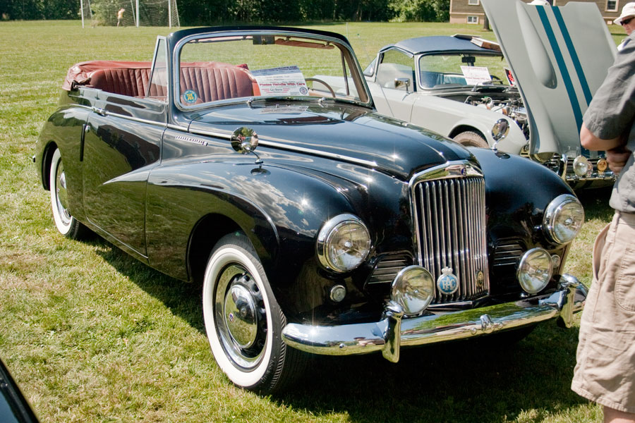 Sunbeam-Talbot 90 MkIIA